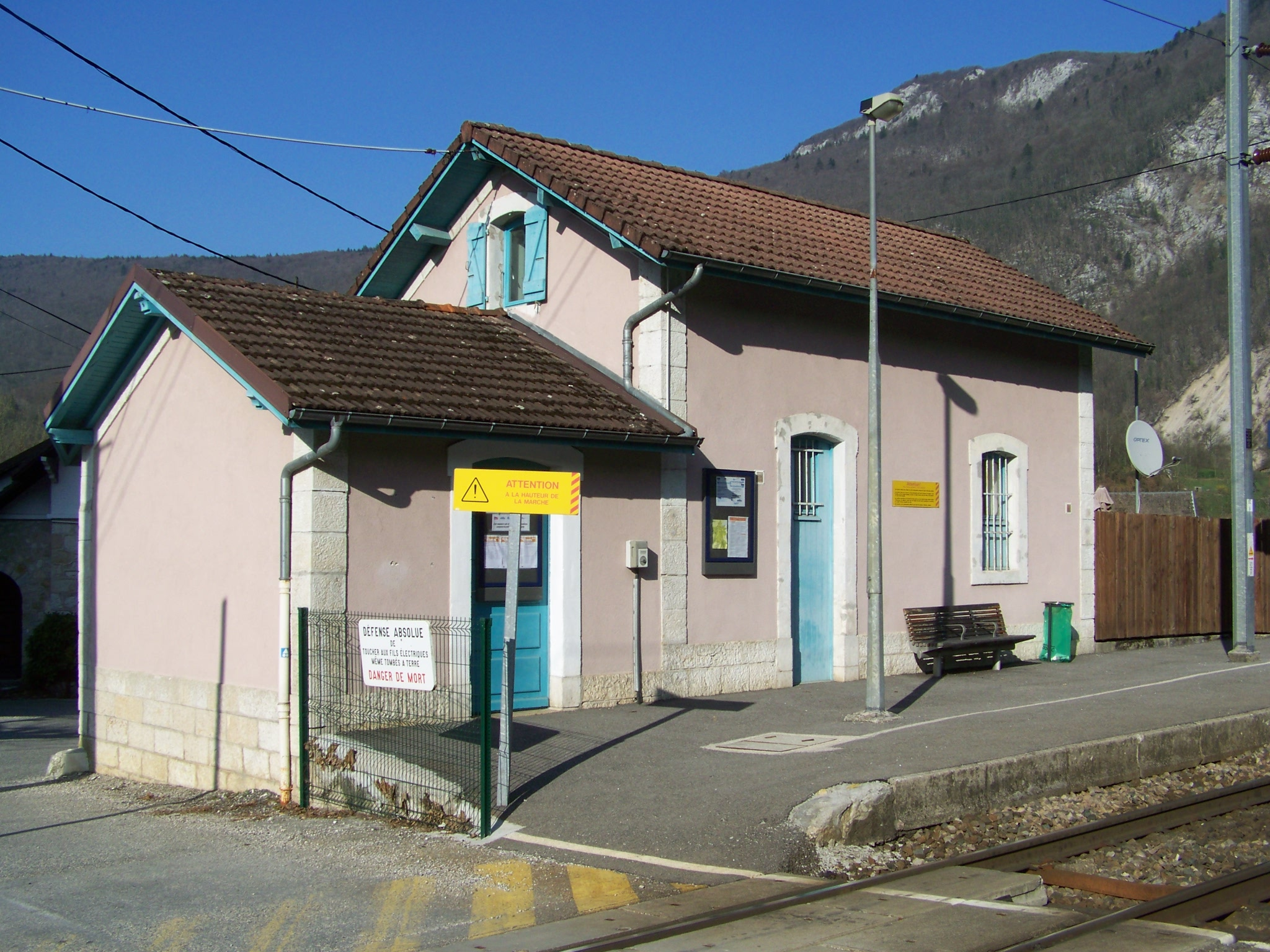 Building of Aigueblette-le-Lac railway station, near Chambéry in Savoie, France.